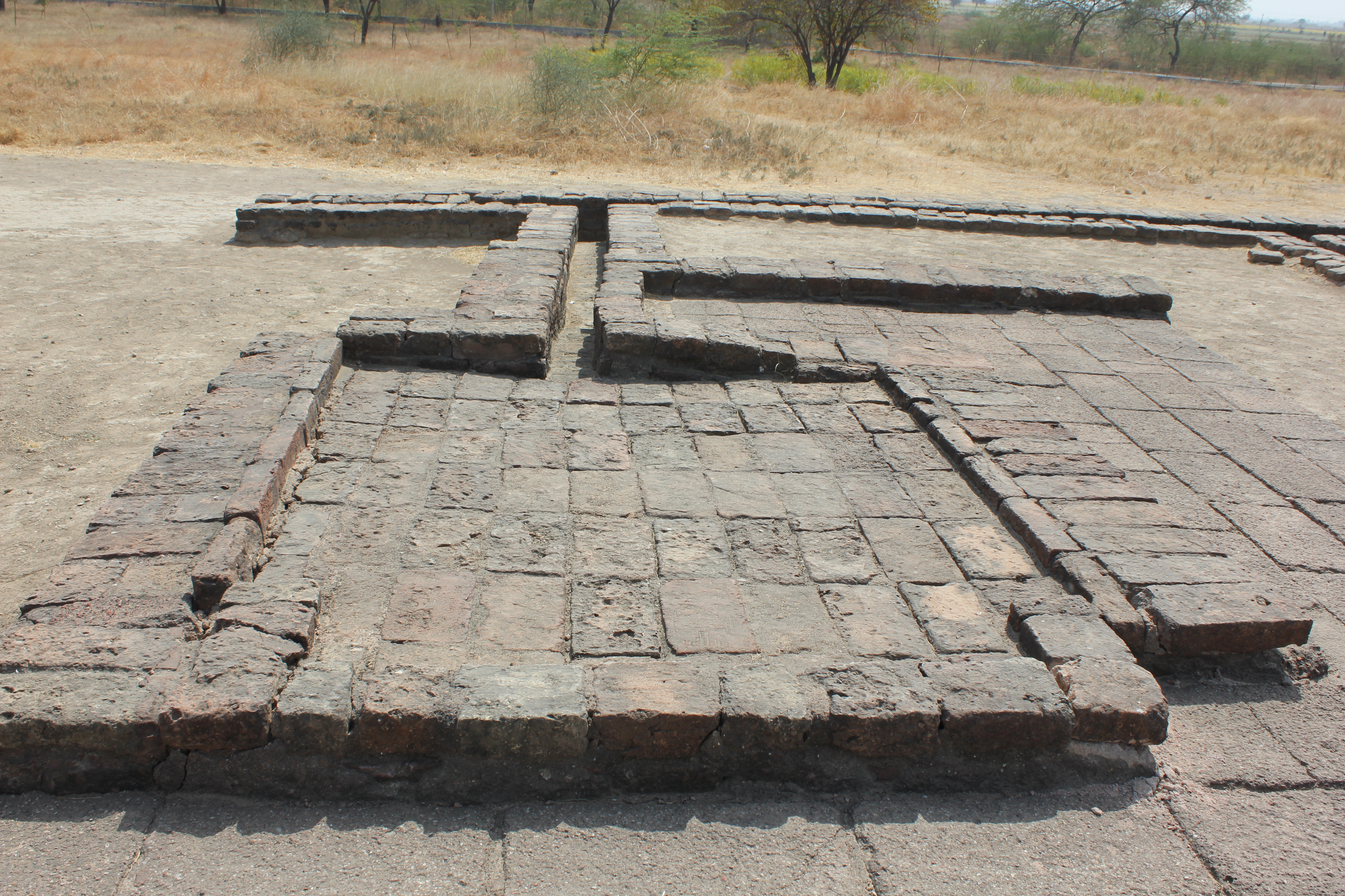 Ancient site at Lothal